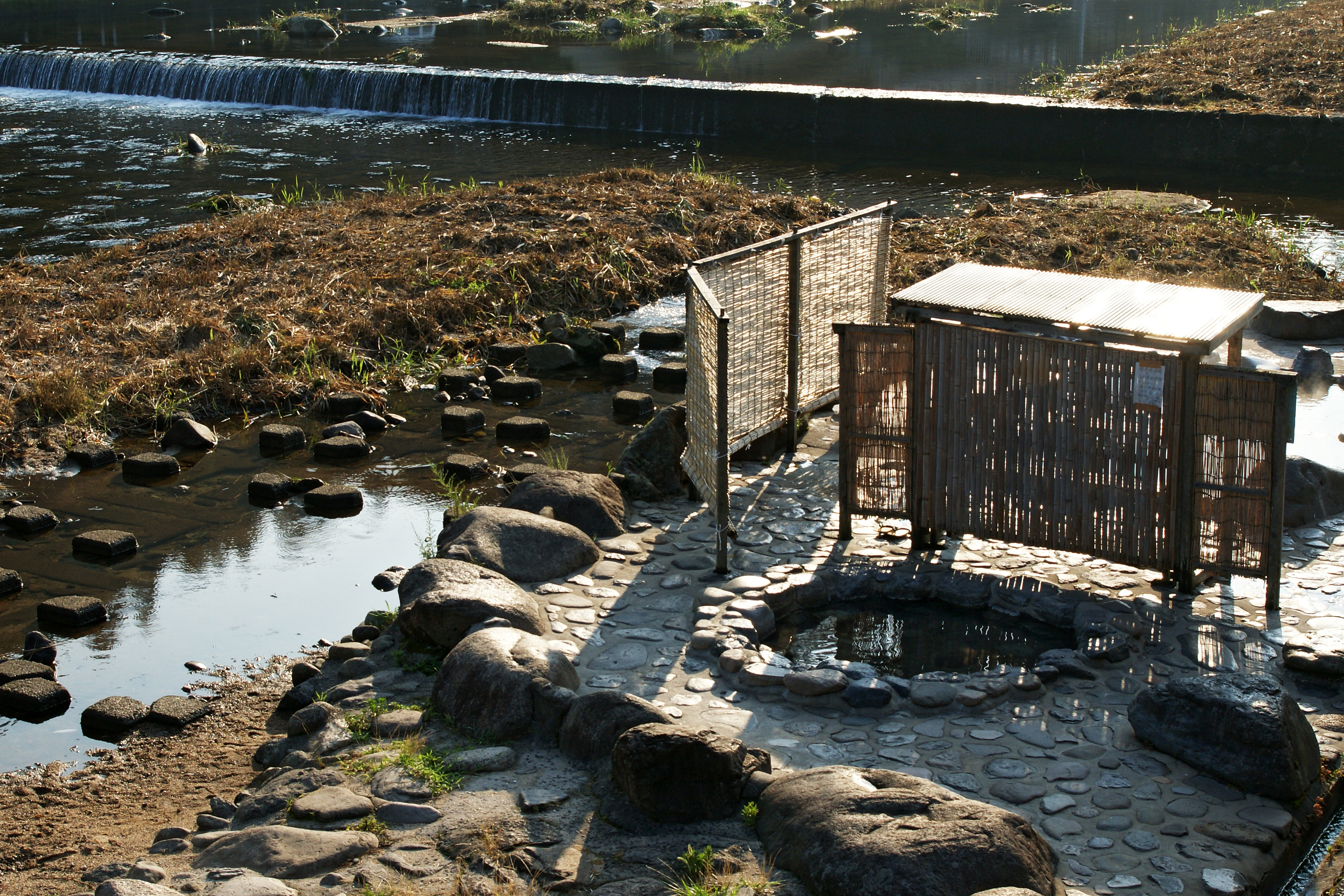 Misasa Onsen in Misasa, Tottori prefecture, Japan